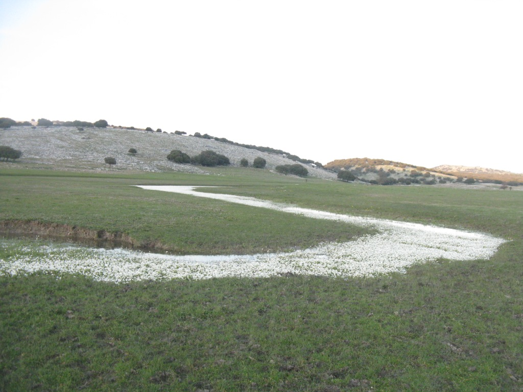 Poldje of La Nava. Sierra de Cabra, Córdoba, Spain